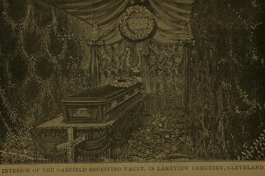 Illustration related to Garfield/Guiteau